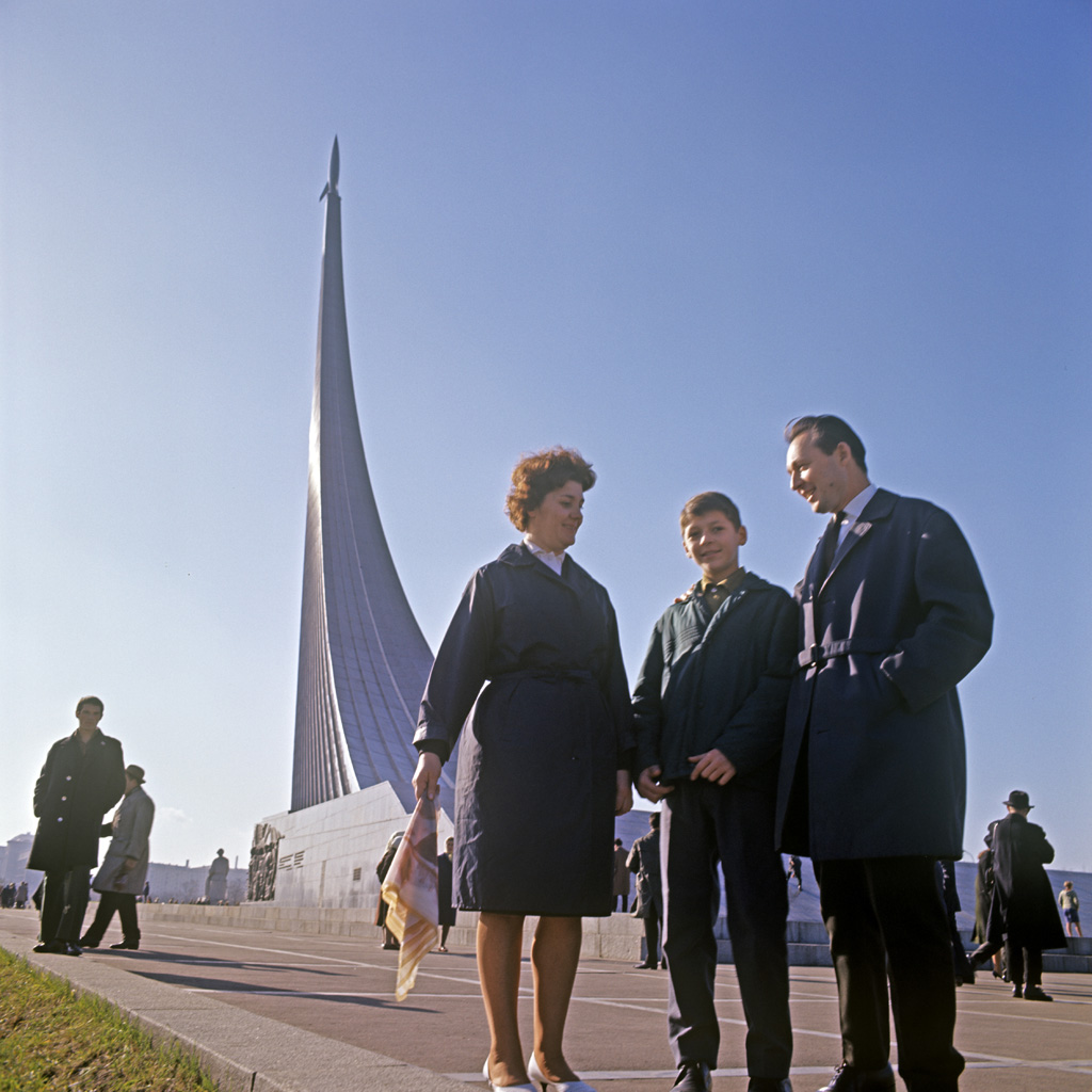 “Second Moscow Watch Factory locksmith's family”. V. Kuzmin, a Second Moscow Watch Factory locksmith, with his family on Cosmonauts Alley near the obelisk "To the Conquerors of Space".